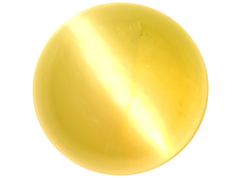 Cymophane is popularly known as cat's eye and like most stones the color changes some depending on the light source and the eye actually looks sharpest with very low lighting. With rotation, the color changes and the milk and honey effect is best under low or incandescent light. The two colors are yellow and light olive. In fluorescent light the color boundaries are less apparent. The eye is straight and sharp viewed horizontally and also straight when viewed vertically with the light source directly above